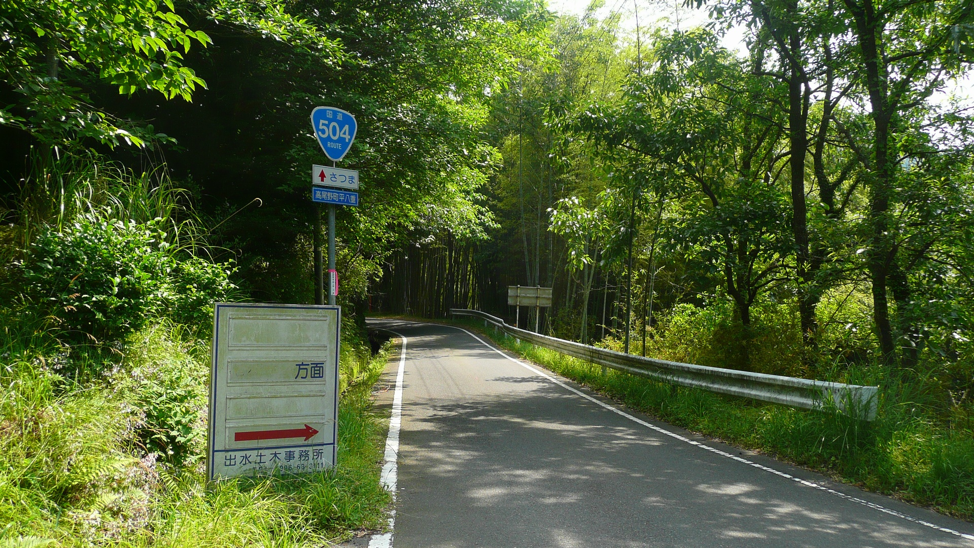 National Route 504 - Horikiri Pass (Takaono, Izumi City, Japan)